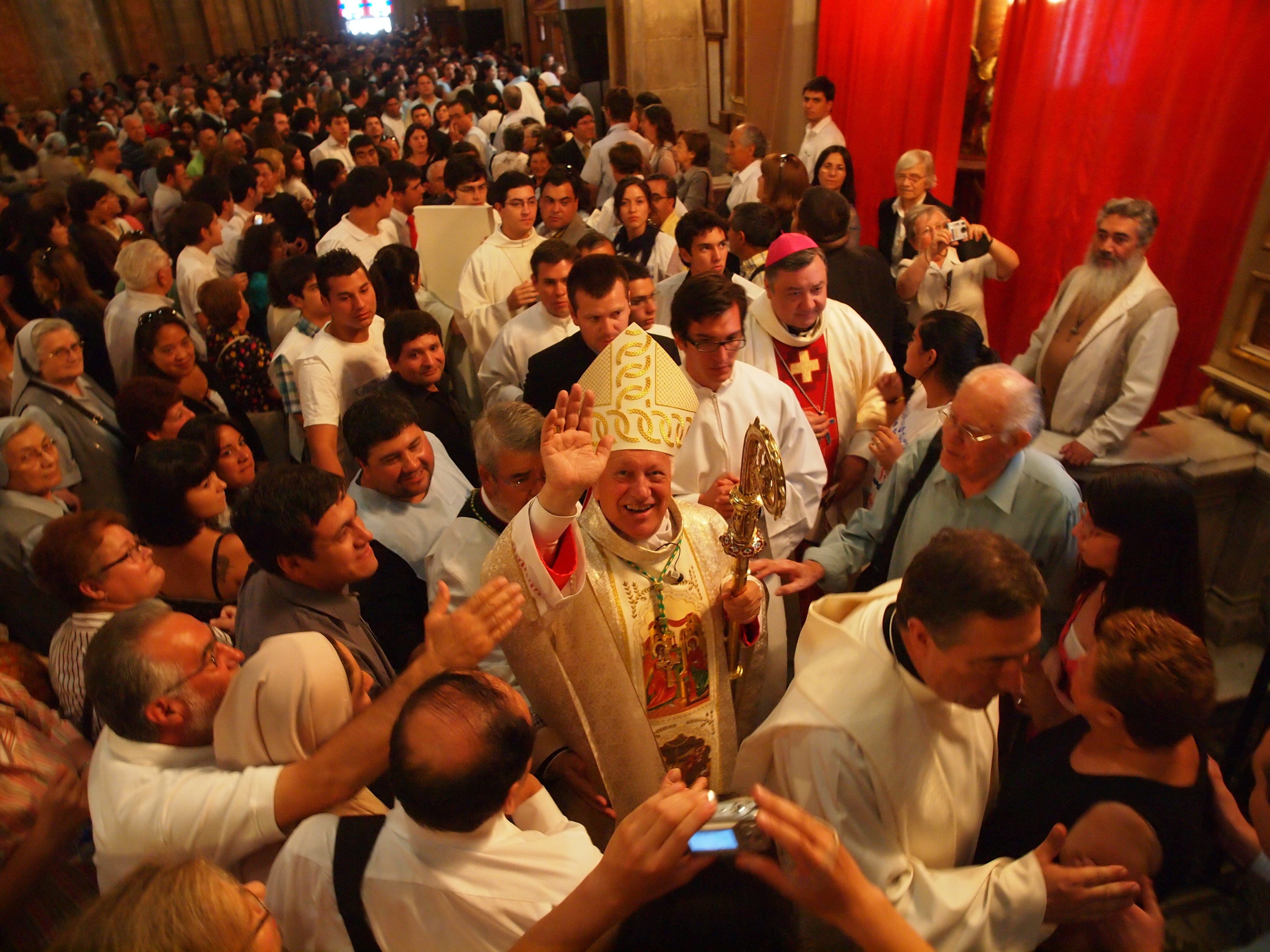 Archbishop Ricardo Ezzati greets the faithful at the conclusion of his Mass of Installation as Archbishop of Santiago, Chile.